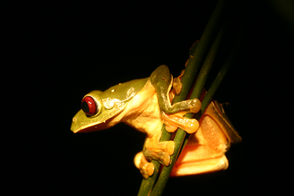 Misfit leaf frog at night when they come out. (Agalychnis saltator)